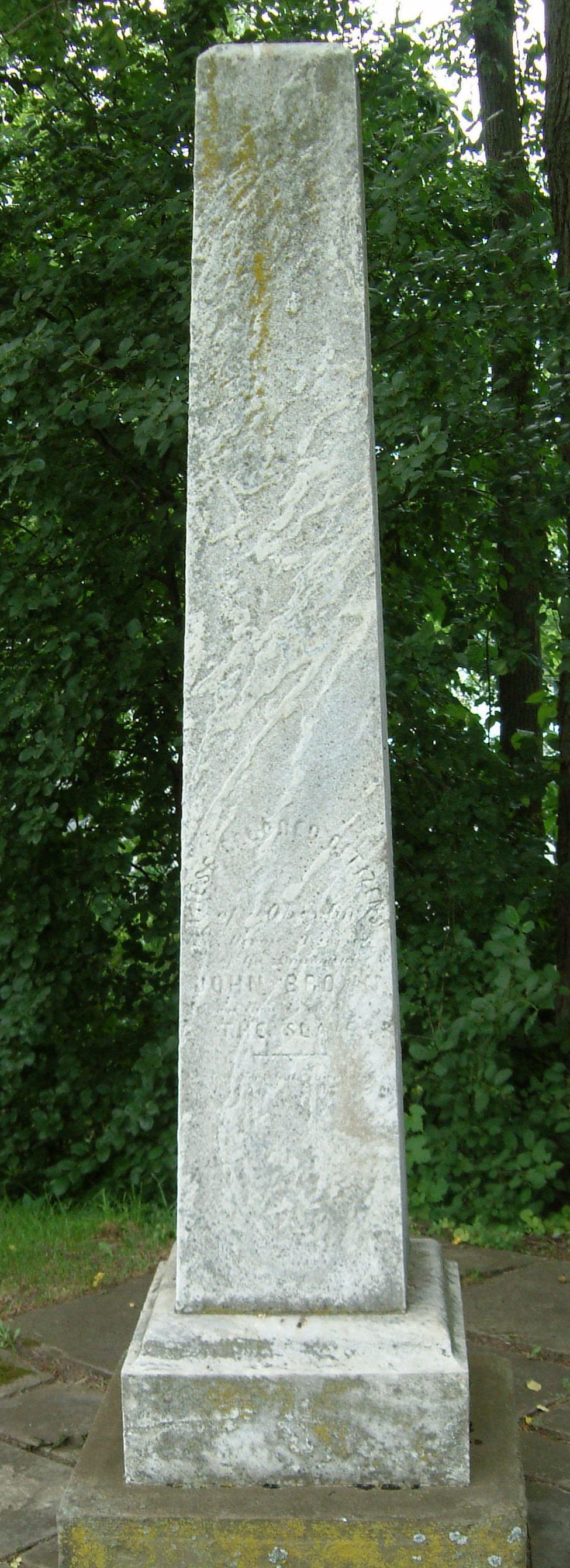 A cenotaph erected to honor the "colored citizens of Oberlin" who died during or because of their participation in John Brown's raid on Harper's Ferry.